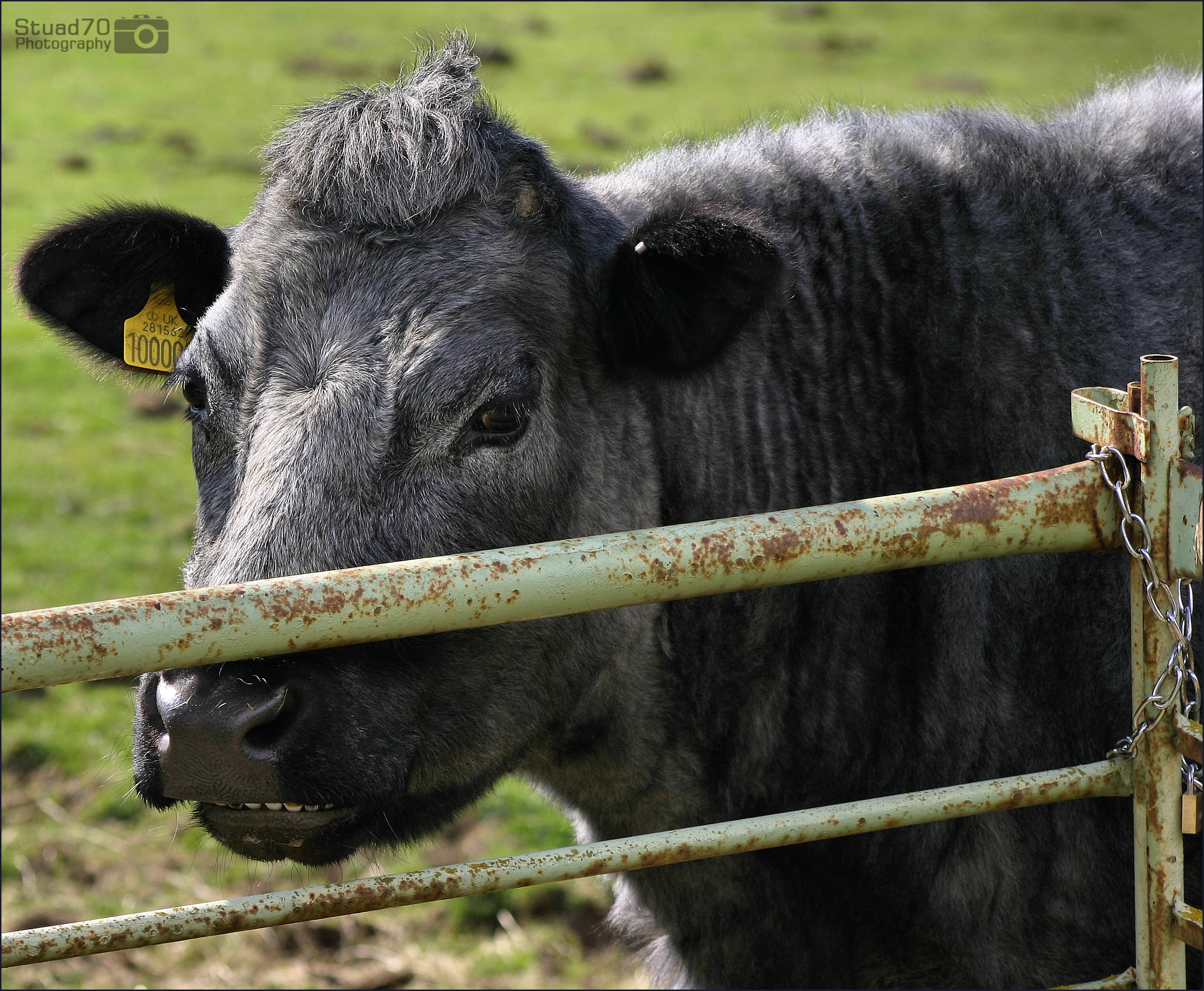 Blue-Grey Shorthorn cross cow in field